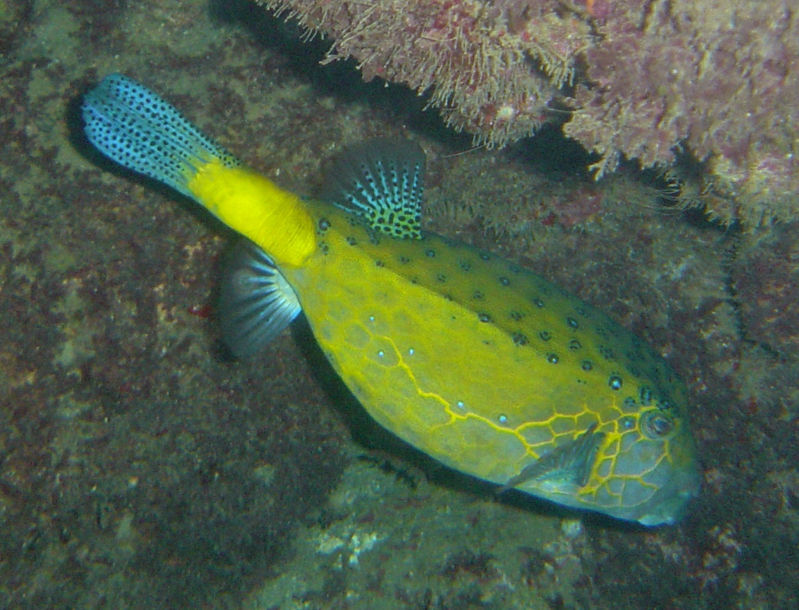 Yellow boxfish (Ostracion cubicus) Image ID: reef0959, NOAA's Coral Kingdom Collection Location: Guam, Mariana Islands